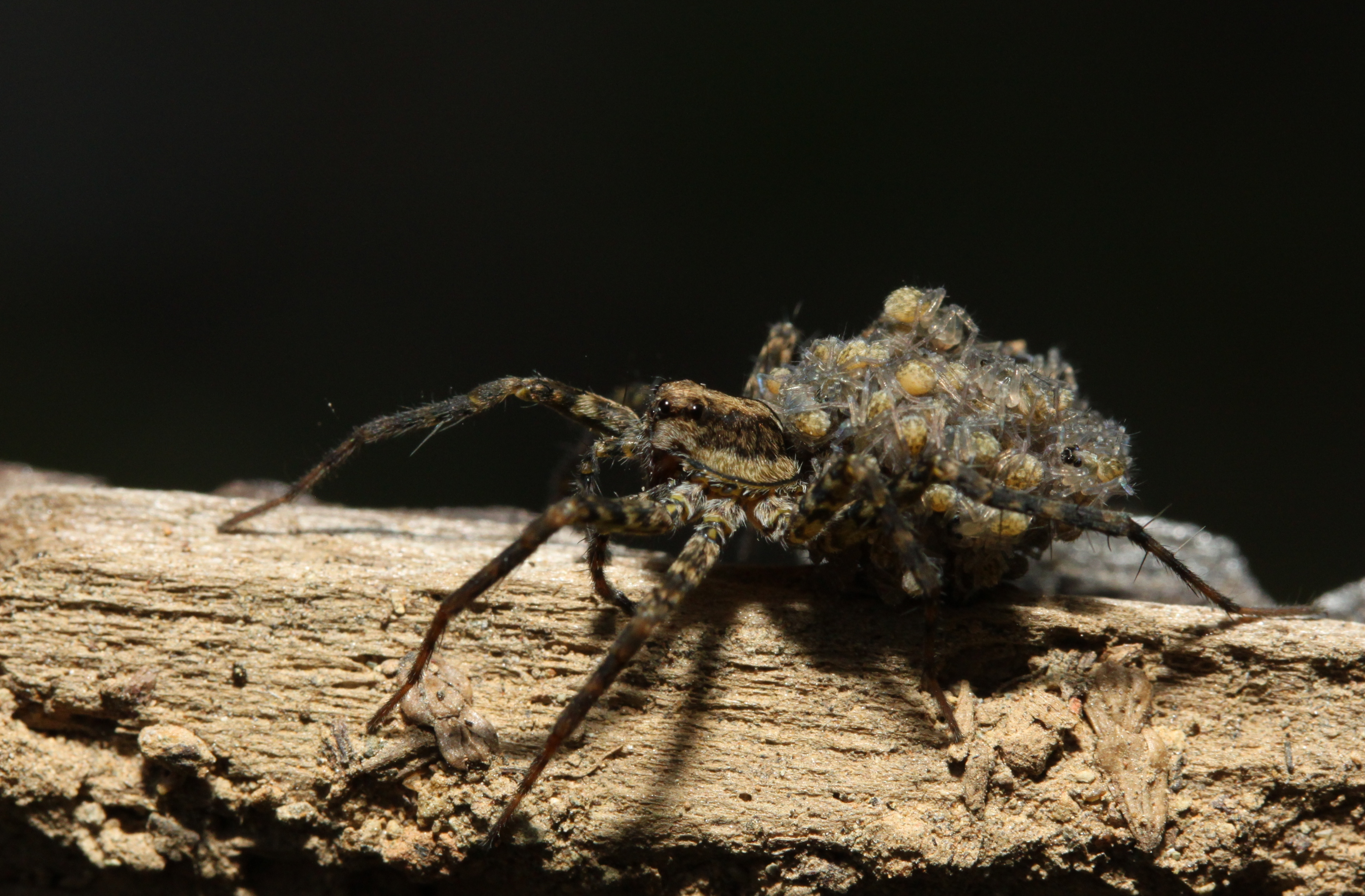 Though survival inside of a cave can be exceedingly tough, some creatures make do. Oftentimes, tiny critters such as forest spiders will use the cave entrances as shelter from the outside elements, an ideal place to raise their young. Don't worry, the walls aren't crawling with them.